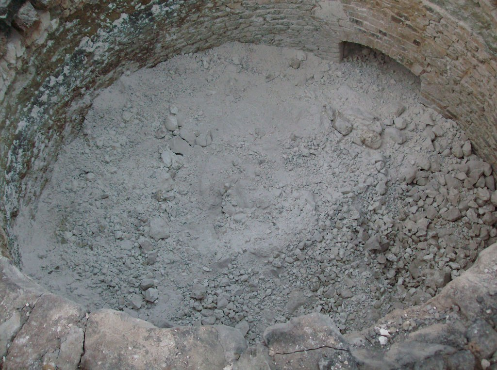 Calchera, Ono San Pietro